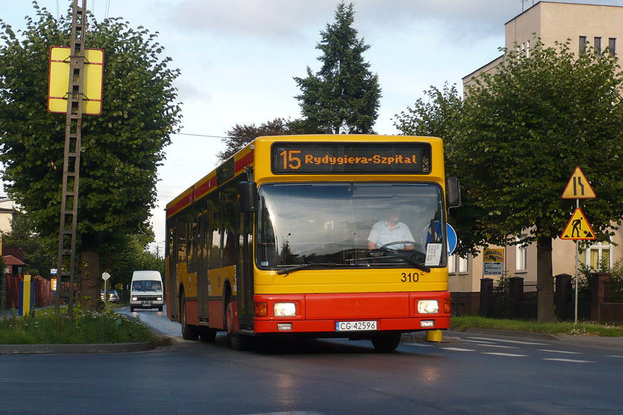 Gräf & Stift NL202 bus (#310) with MAN NL202 chassis in Piłsudskiego street, Grudziądz, Poland. Built 1993, MZK Grudziądz operator.